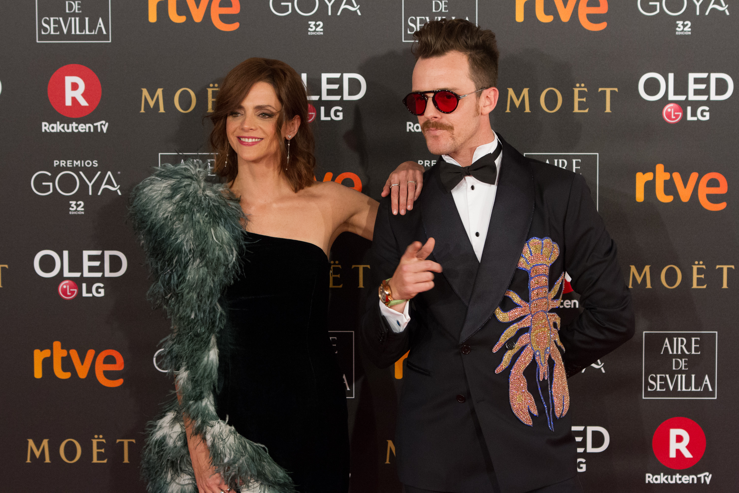 32nd Goya Awards, 2018.